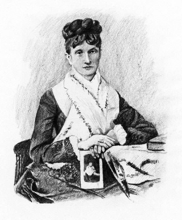 Pencil drawing of a portrait of Nadezhda von Meck